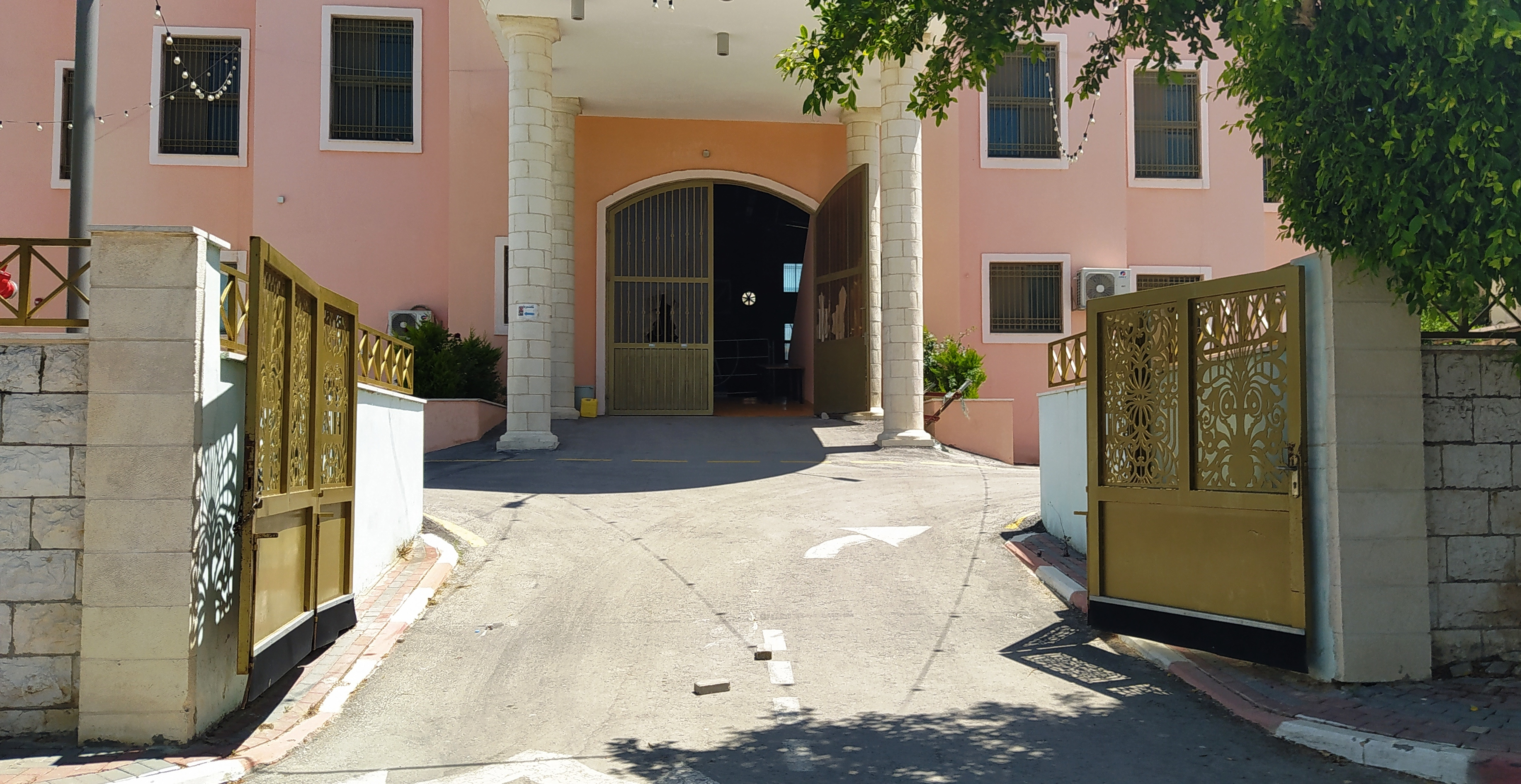 Salfit Sports Hall